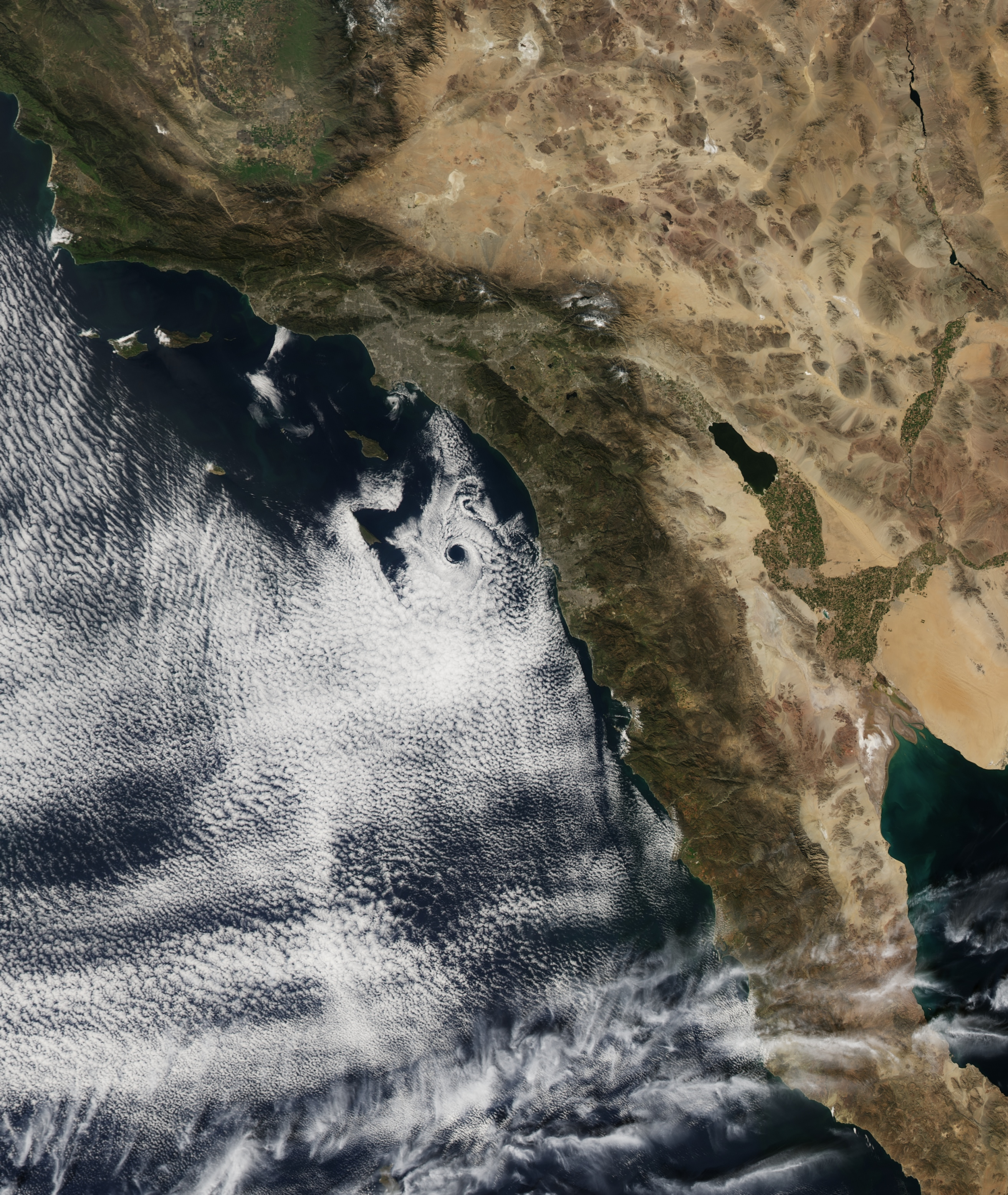 On February 17, 2013, the Moderate Resolution Imaging Spectroradiometer (MODIS) on NASA’s Aqua satellite captured this natural-color image of an atmospheric eddy off the coast of Southern California. From Los Angeles County, California south to. The swirling, circular pattern in the clouds was due west of San Diego when Terra flew over around local noon. The pattern is known to meteorologists as a Catalina eddy, or coastal eddy, and it forms as upper-level flows interact with the rugged coastline and islands off of Southern California. The interaction of high-pressure—bringing offshore winds blowing out of the north—and low-pressure—driving coastal winds blowing out of the south—combine with the topography to give the marine stratus clouds a cyclonic, counter-clockwise spin. The eddy is named for Santa Catalina Island, one of the Channel Islands offshore between Los Angeles and San Diego. Catalina eddies can bring cooler weather, fog, and better air quality into Southern California as they push the marine boundary layer further inland. These mesoscale eddy patterns can stretch across 100 to 200 kilometers (60 to 120 miles) and can last from a few hours to a few days. They most often form between April and October, peaking in June.